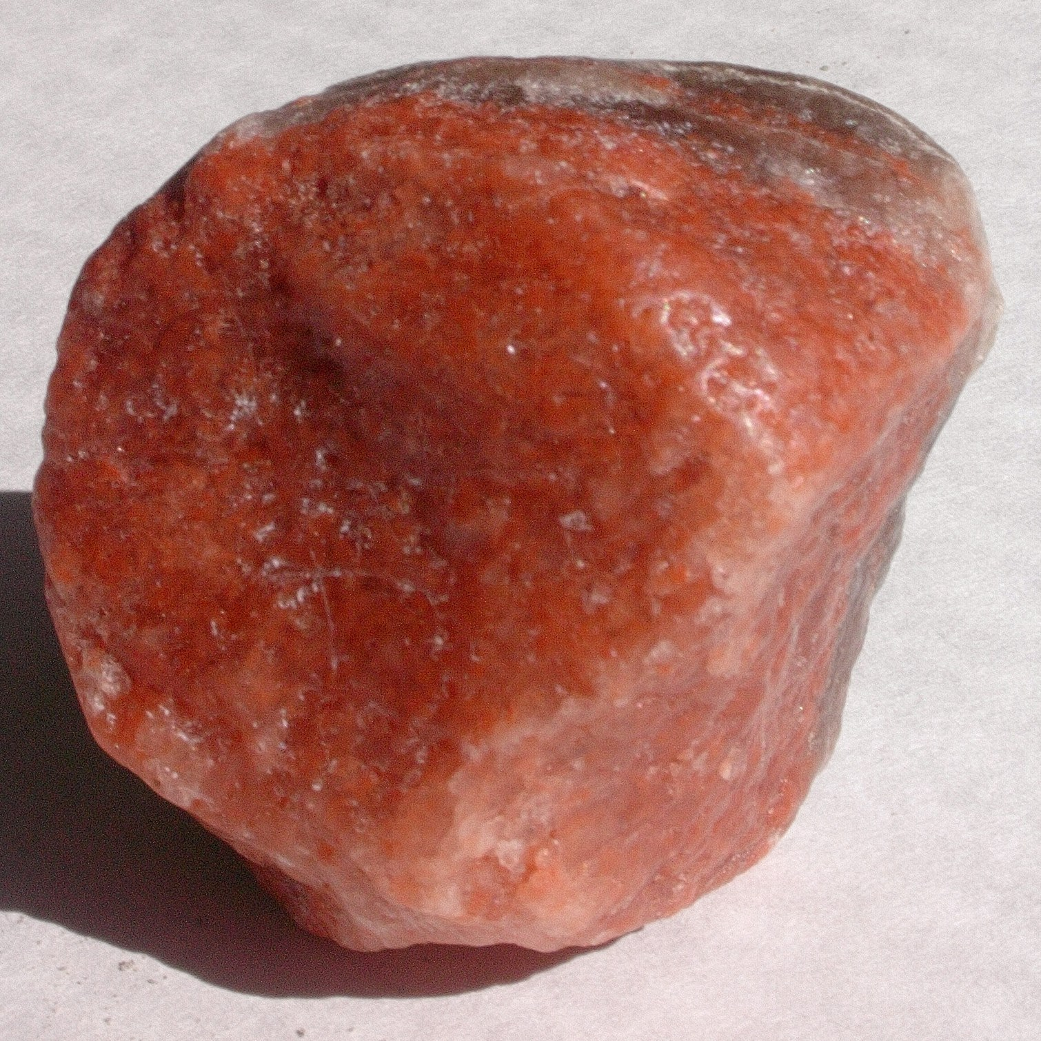 Carnallite from Spain